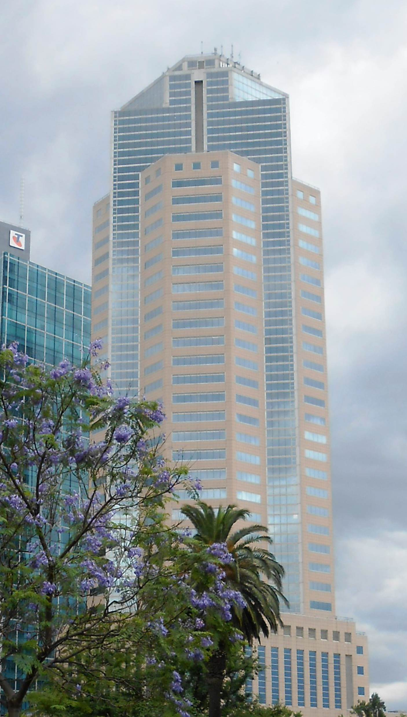 The Casselden Place building in December 2014. This image has been cropped.